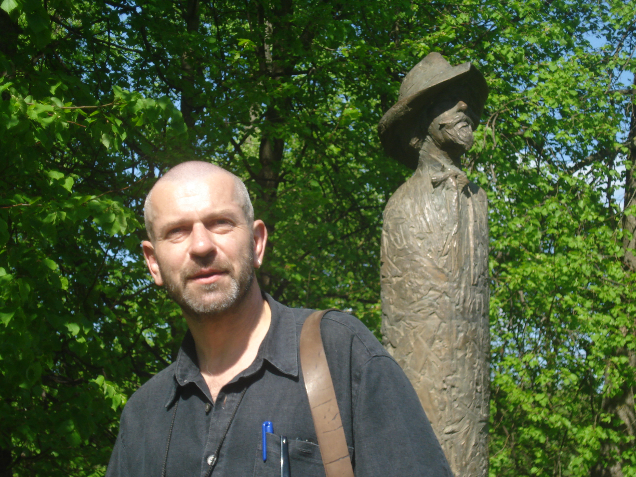 Mindaugas Šnipas, Lithuanian sculptor